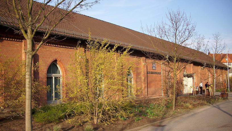 Old Exercise Hall (former Heide-Kaserne/Taunton-Barracks), Lower Saxony, Germany.